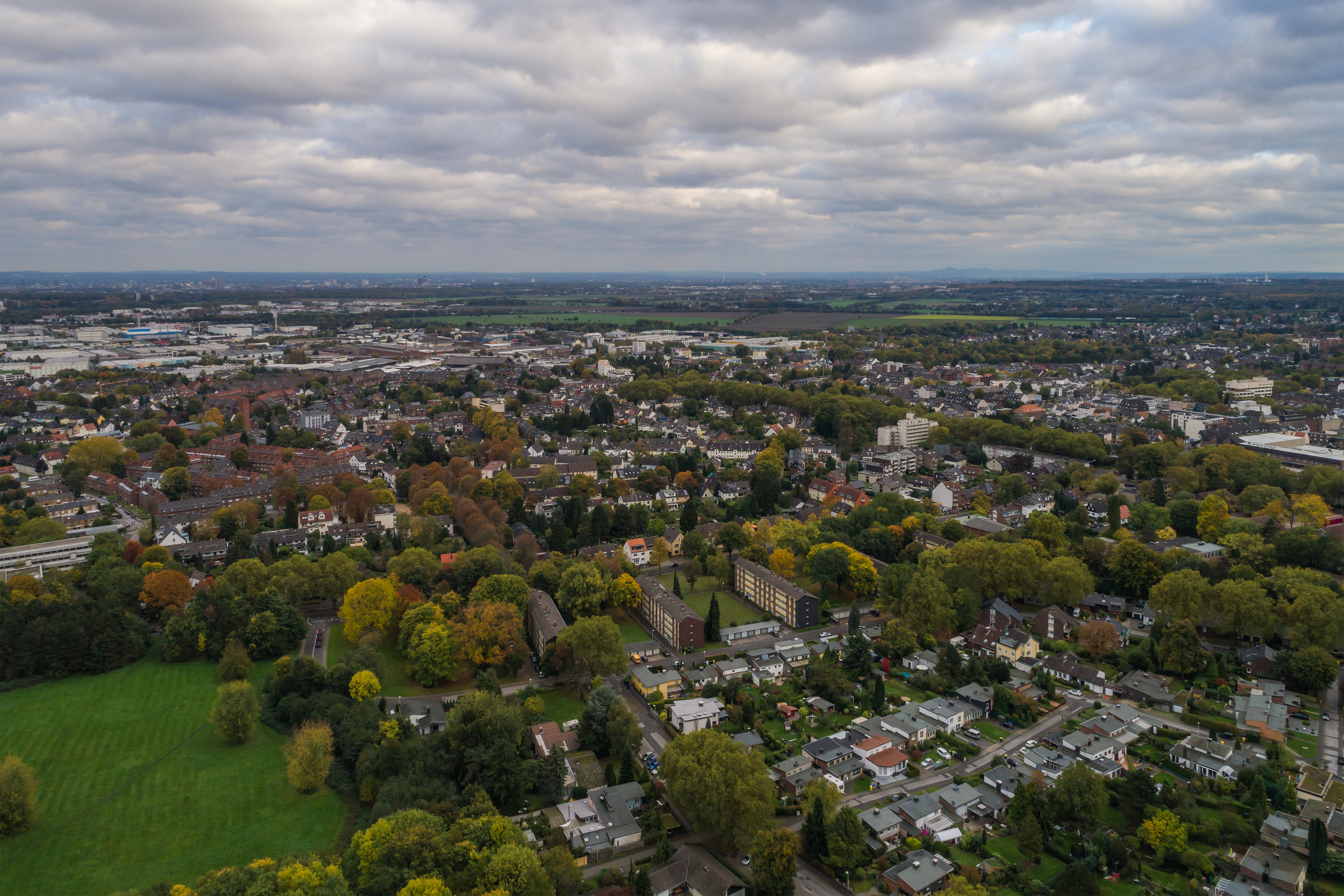 Aerial photo of Frechen, Rhein-Erft-Kreis (Germany)